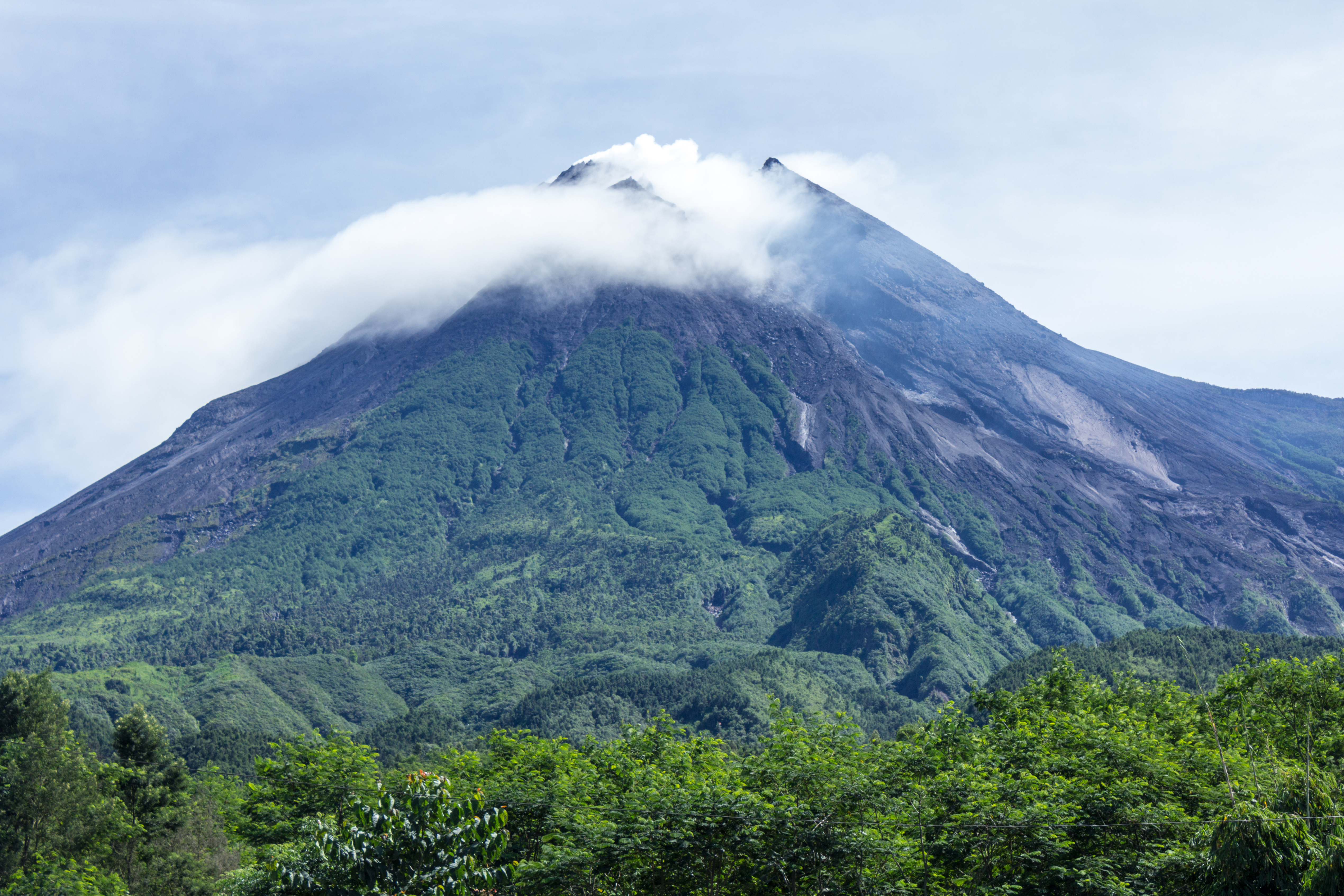 Mount Merapi, viewed from Umbulharjo